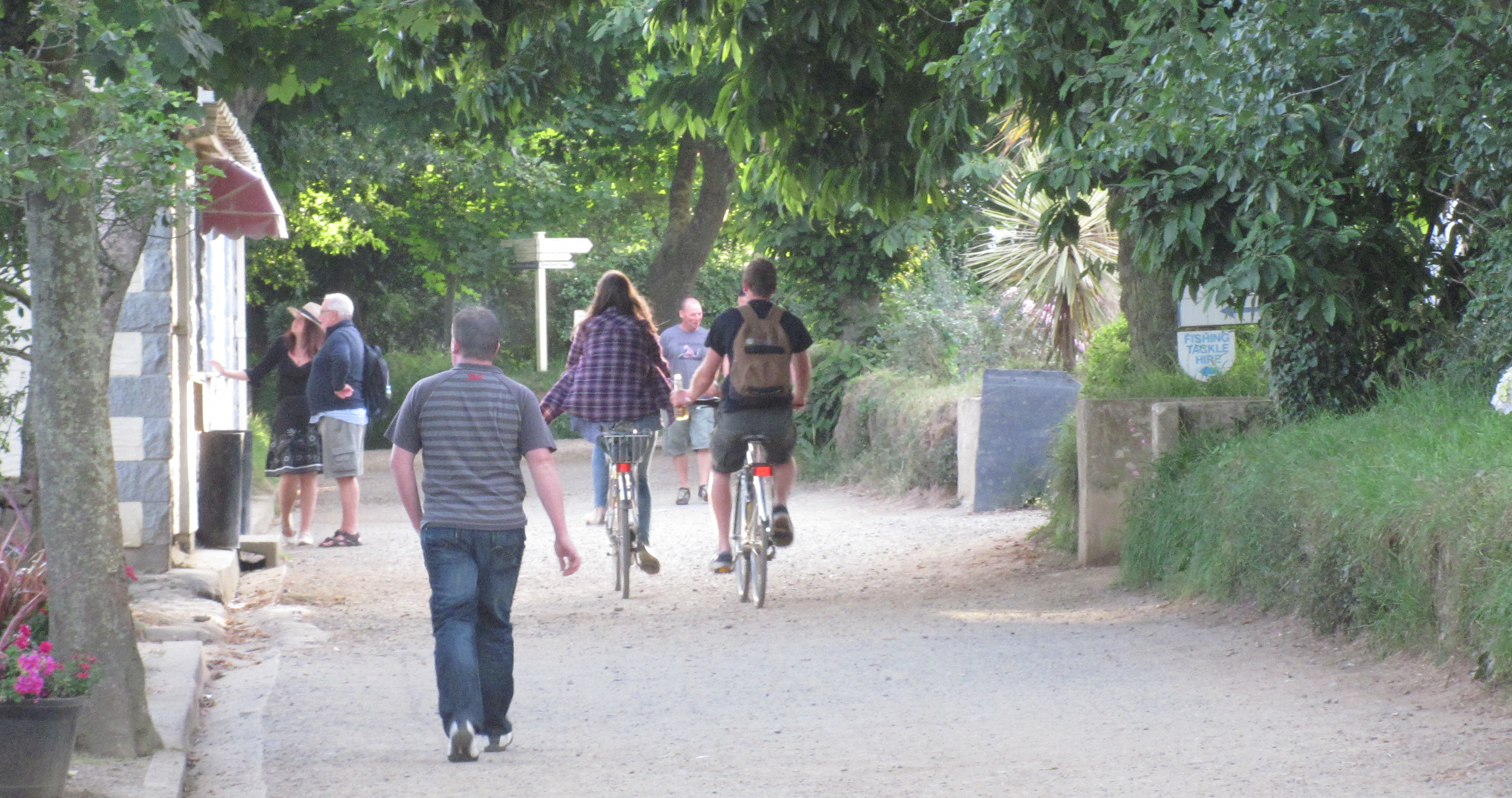 In Sark, 3 July 2010